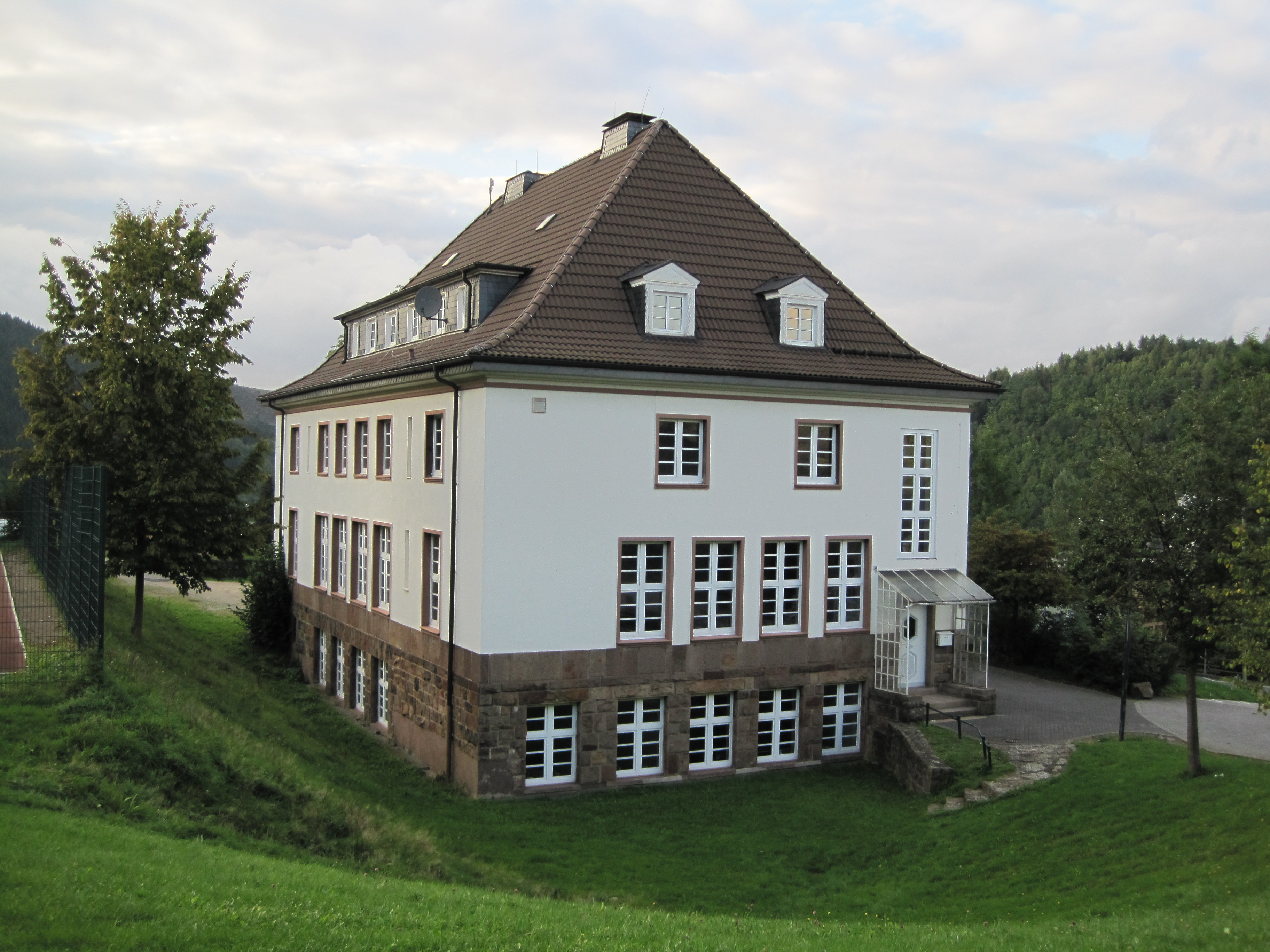 Lennestadt secondary school, Lennestadt, Germany check usage